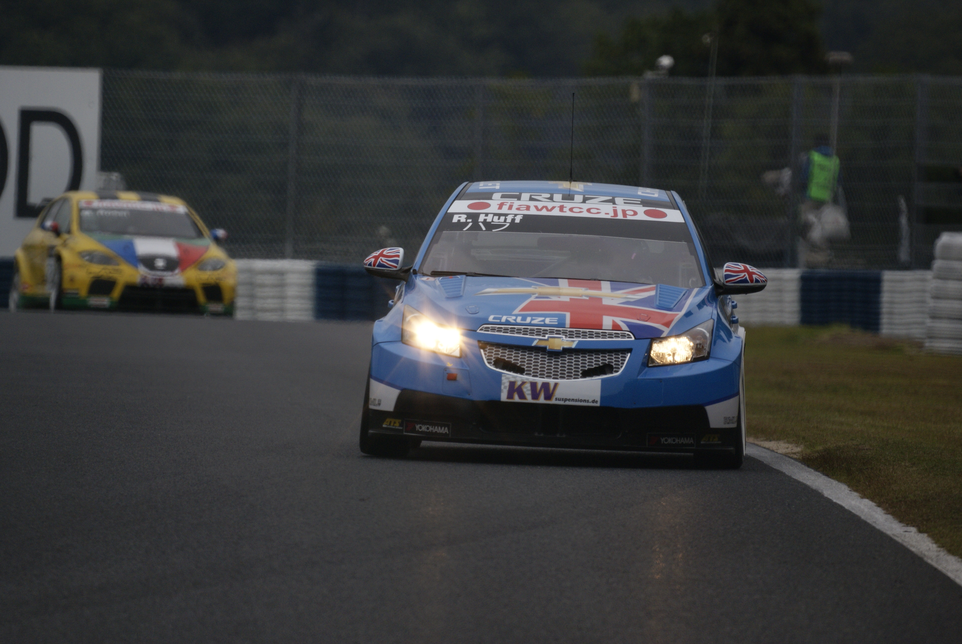 7, Robert Huff, at the head of Mike Knight corner.